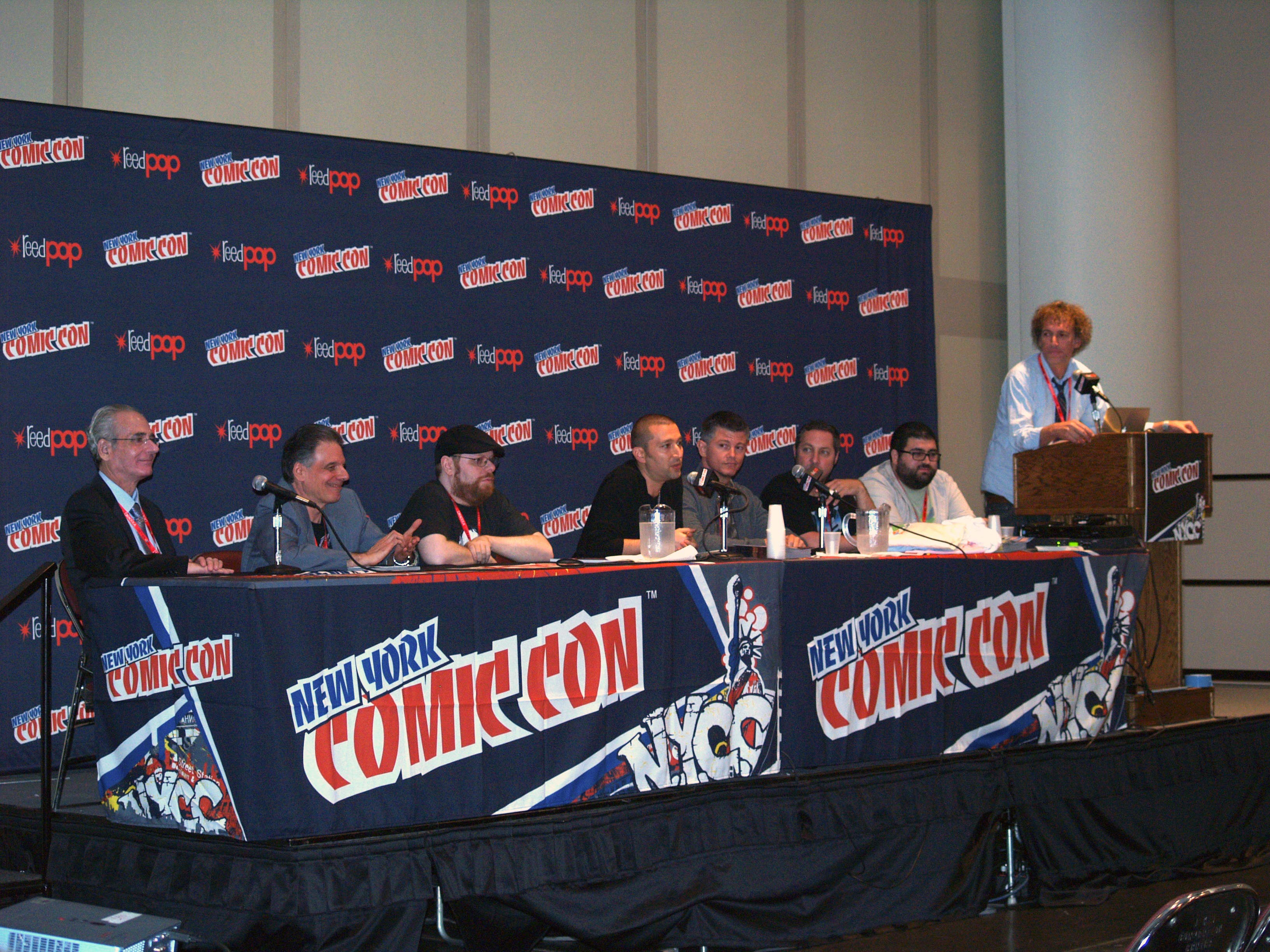 The IDW "Creator Visions" panel on Sunday, October 13, 2013 at the Jacob K. Javits Convention Center in Manhattan, Day 4 of the 2013 New York Comic Con. From left to right: Comics writers Sidney Friedfertig, Gary Gerani, Adam Knave, Dan Goldman, M. Zachary Sherman, television writer/producer and comics writer Jeff Kline, comics editor and critic Jason Enright, and at the podium, IDW Vice President of Marketing Dirk Wood, acting as moderator. This photo was created by Luigi Novi. It is not in the public domain, and use of this file outside of the licensing terms is a copyright violation.